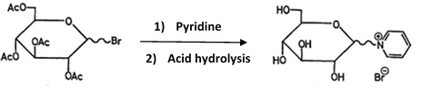 ACD Labs